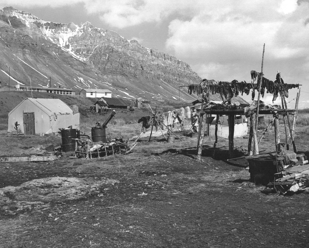 Village of Anaktuvuk Pass FWS keywords ARLIS; Alaska Source FWS-340 Rights Public domain